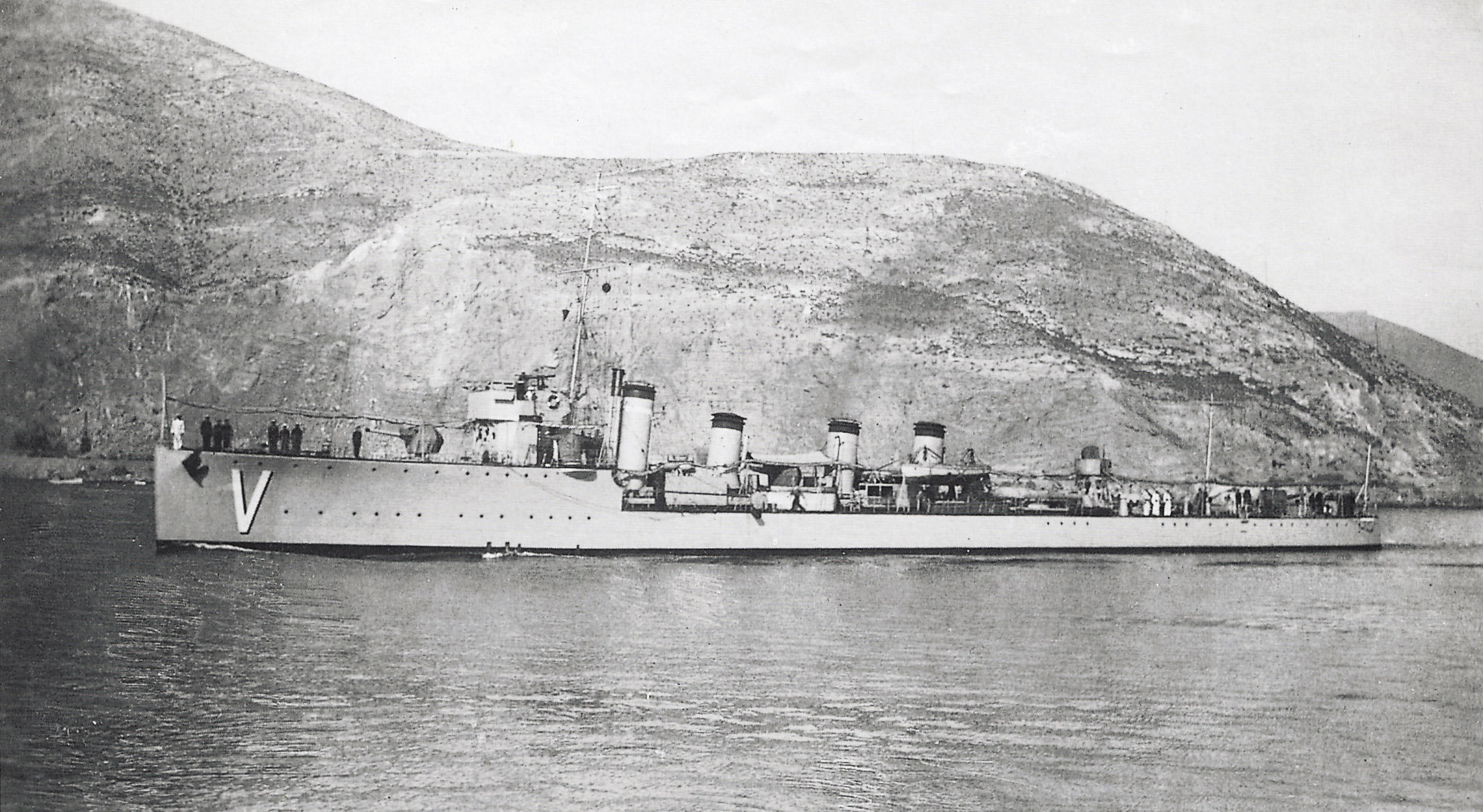 Destroyer Velasco (V), Alsedo Class (1925)